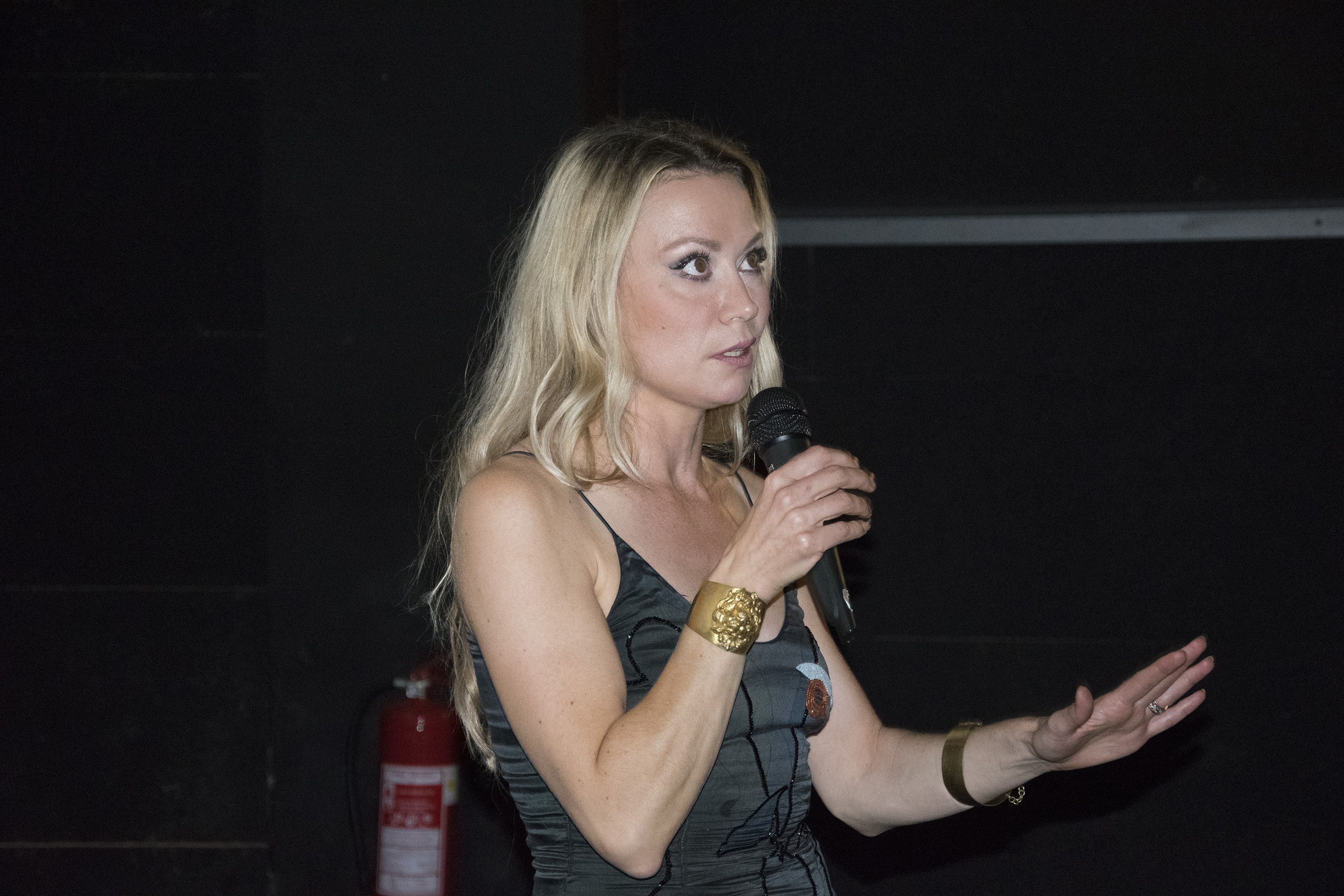 Director Anna Eriksson presenting her film "M" at the Prague Independent Film Festival in August, 2019